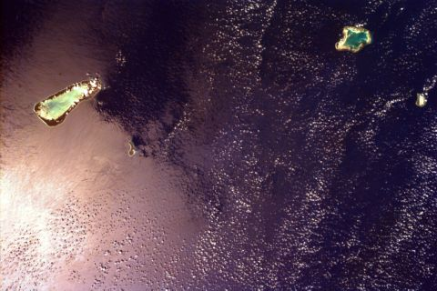 NASA astronaut image of Aldabra Group (Seychelles) in the Indian Ocean ISS Crew Earth Observations: ISS004-ESC-36110026 Identification Mission ISS004 (Expedition 4) Roll ESC Frame 36110026 Features INDIAN OCEAN AND SEYCHELLES Center Point Latitude -10.0° N Center Point Longitude 46.8° E Camera Camera Tilt 7° Camera Focal Length 50 mm Camera Kodak DCS460 Electronic Still Camera Quality Percentage of Cloud Cover 0-10% Nadir What is Nadir? Date 2002-02-05 Time 11:00:26 Nadir Point Latitude -9.6° N Nadir Point Longitude 47.0° E Nadir to Photo Center Direction Southwest Sun Azimuth 256° Spacecraft Altitude 209 nautical miles (387 km) Sun Elevation Angle 62° Orbit Number 2351